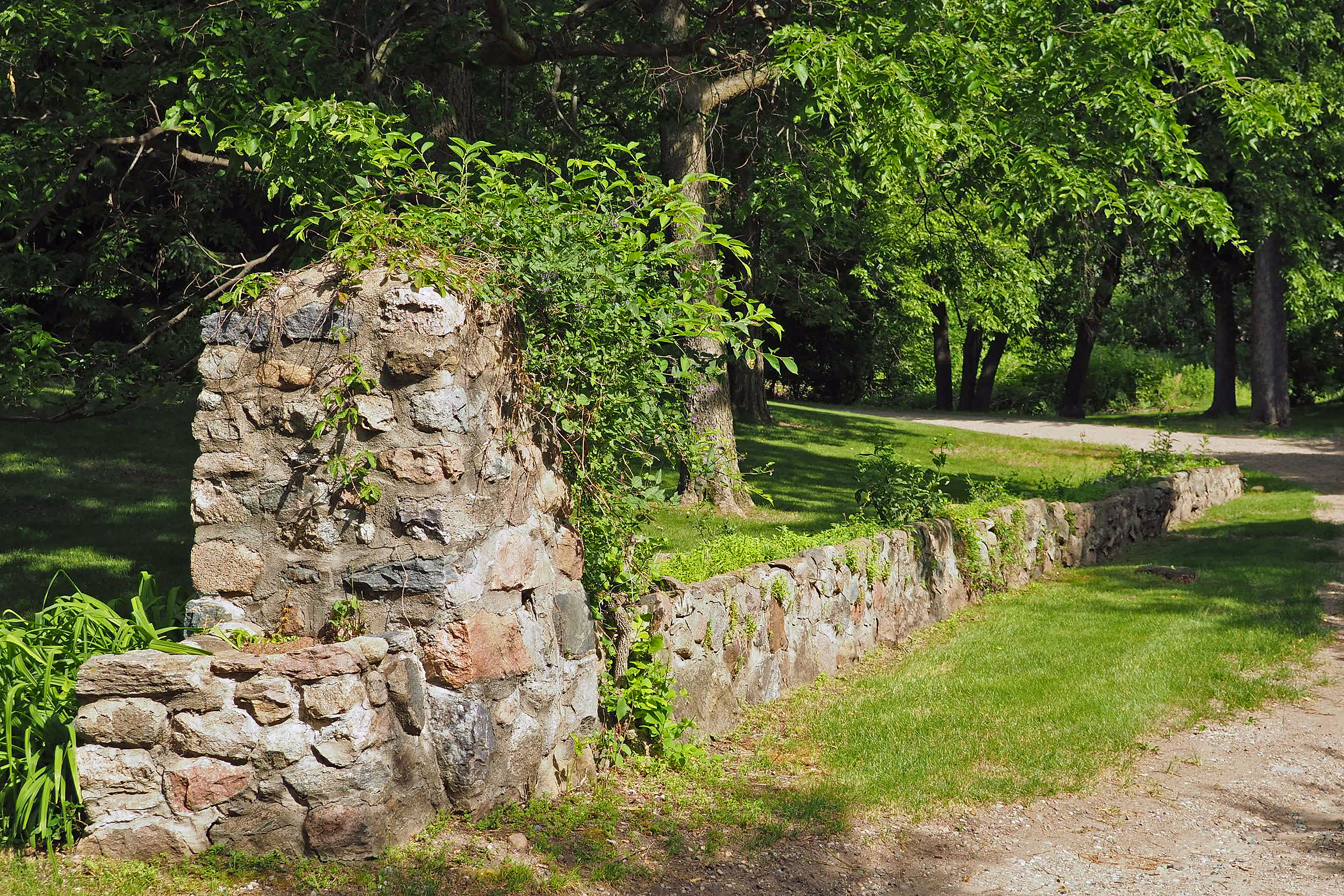 Garden walls, Rand House, 1 Old Territorial Rd, Monticello, Minnesota, USA. Viewed from the southeast.